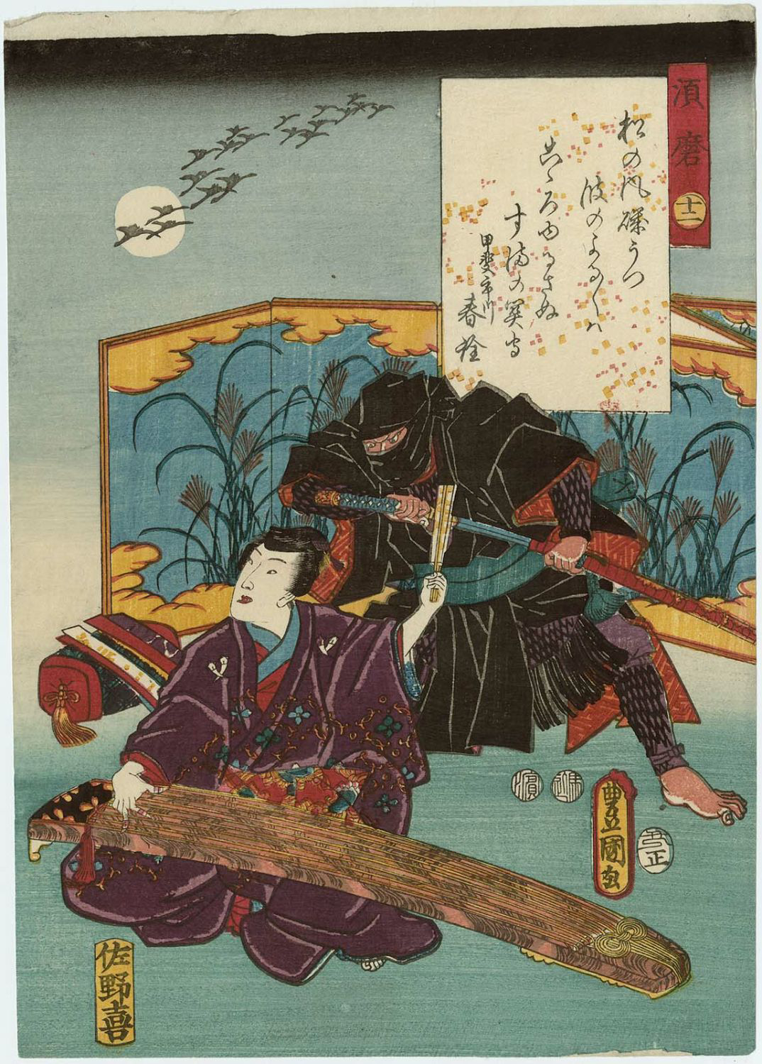 A ninja and Prince Hikaru Genji by Utagawa Kunisada. Ch. 12, Suma, from the series The Color Print Contest of a Modern Genji (Ima Genji nishiki-e awase)